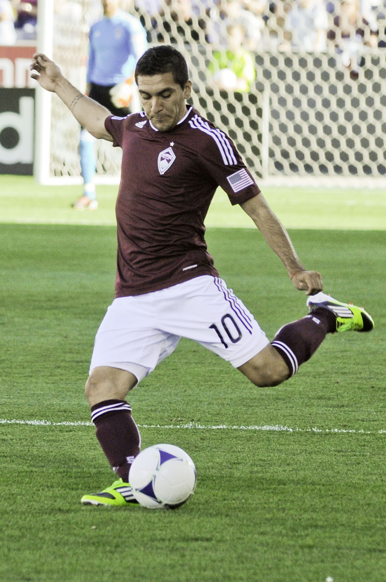 Game day photos taken at a MLS Colorado Rapids game on 4/1/12 by Ed Clemente Photography